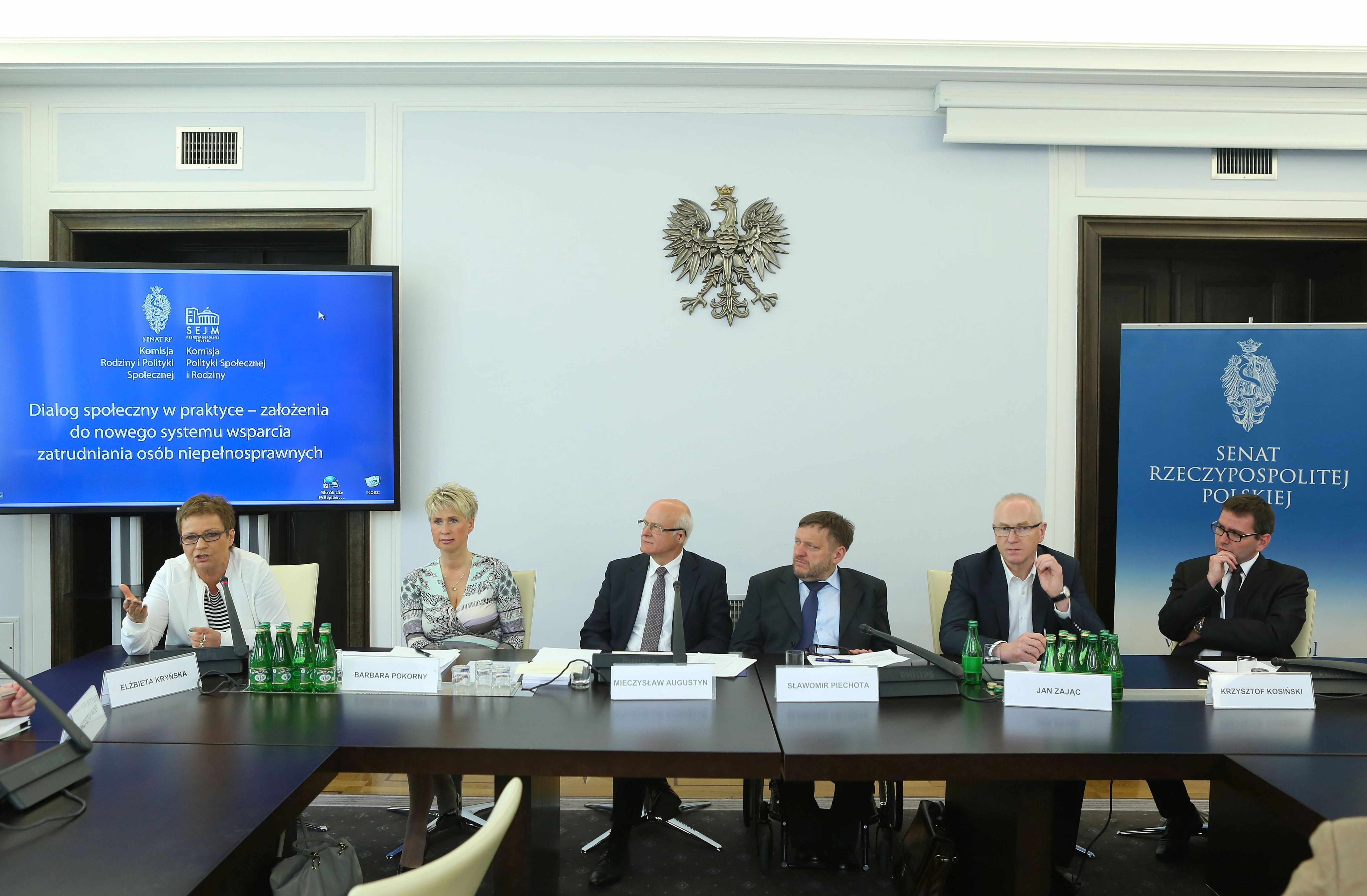 Conference "Social dialogue in practice - tenets of the new system of support for employing the disabled workers" in the Polish Senate